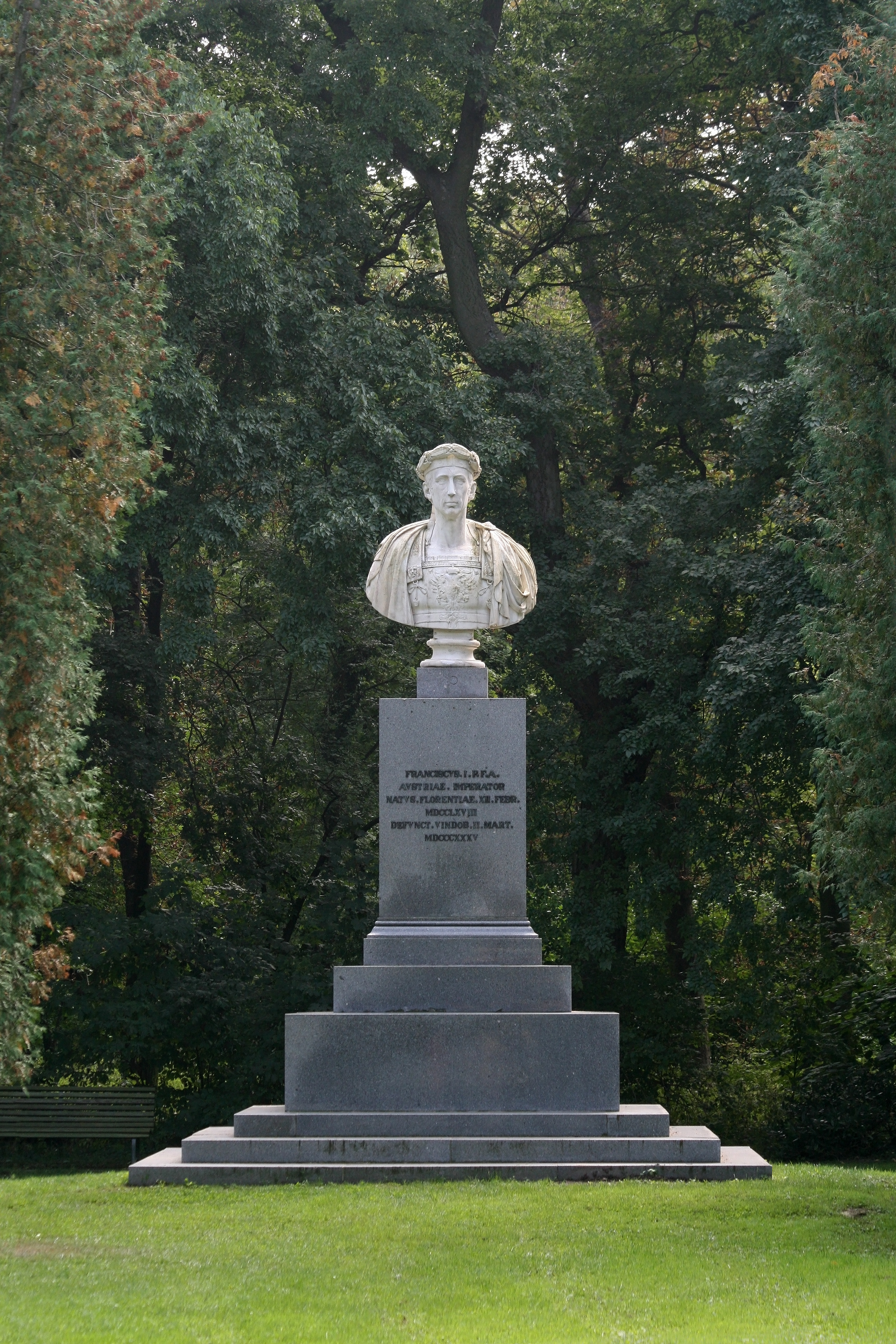 Marble bust of Emperor Franz I. of Austria at the landscape garden in Laxenburg, Lower Austria. The bust was sculpted by Giovanni Battista Comolli (1775–1831) as a gift from the city of Milan to Empress Karoline Auguste and set up in Laxenburg in 1836.